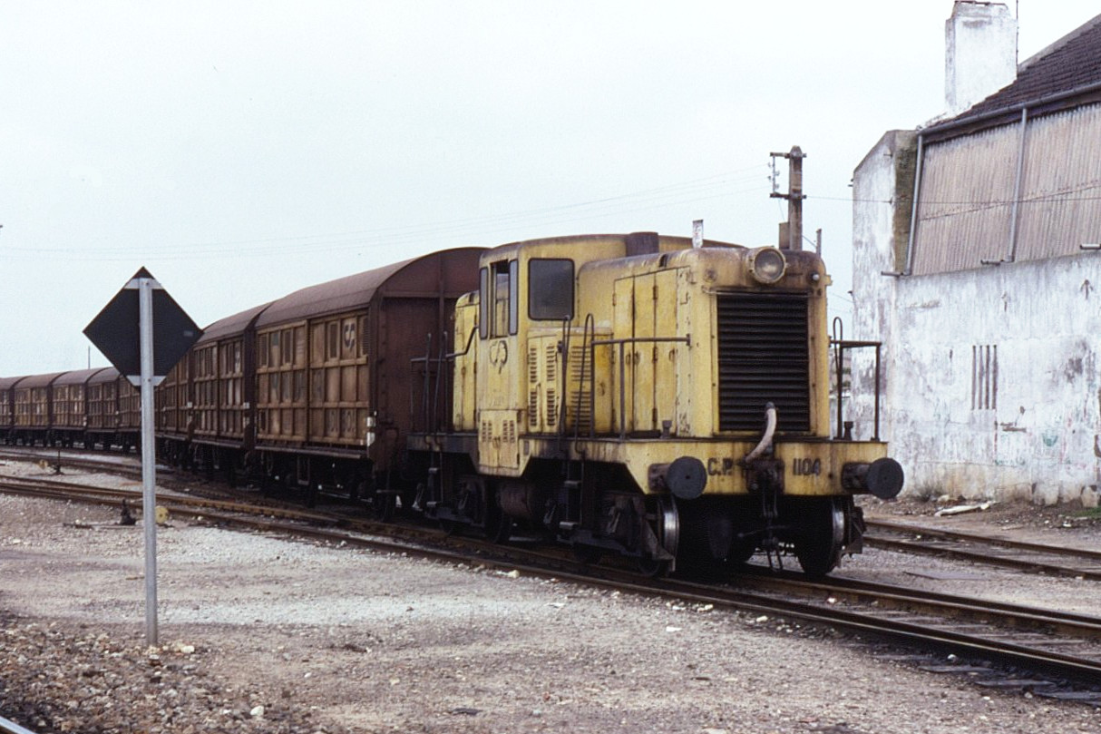 CP 1106 in Barreiro. USA built shunters introduced in 1949. Built by General Electric with twin Caterpillar engines. Seen here at Barreiro on 11 November 1993, no. 106 is shunting a train of covered wagons.